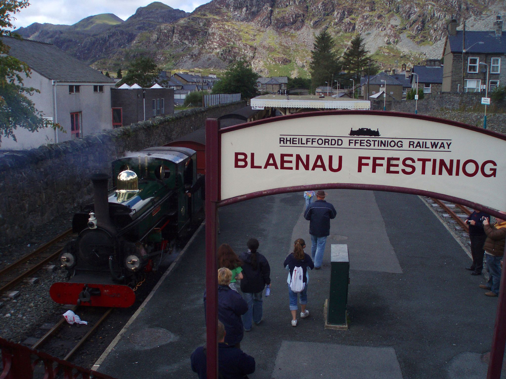 Ffestiniog Railway locomotive Blanche at Blaenau Ffestiniog railway station.